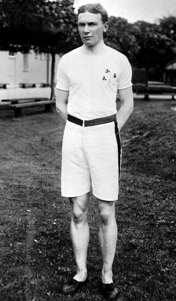 Bobby Kerr, Olympic gold medallist